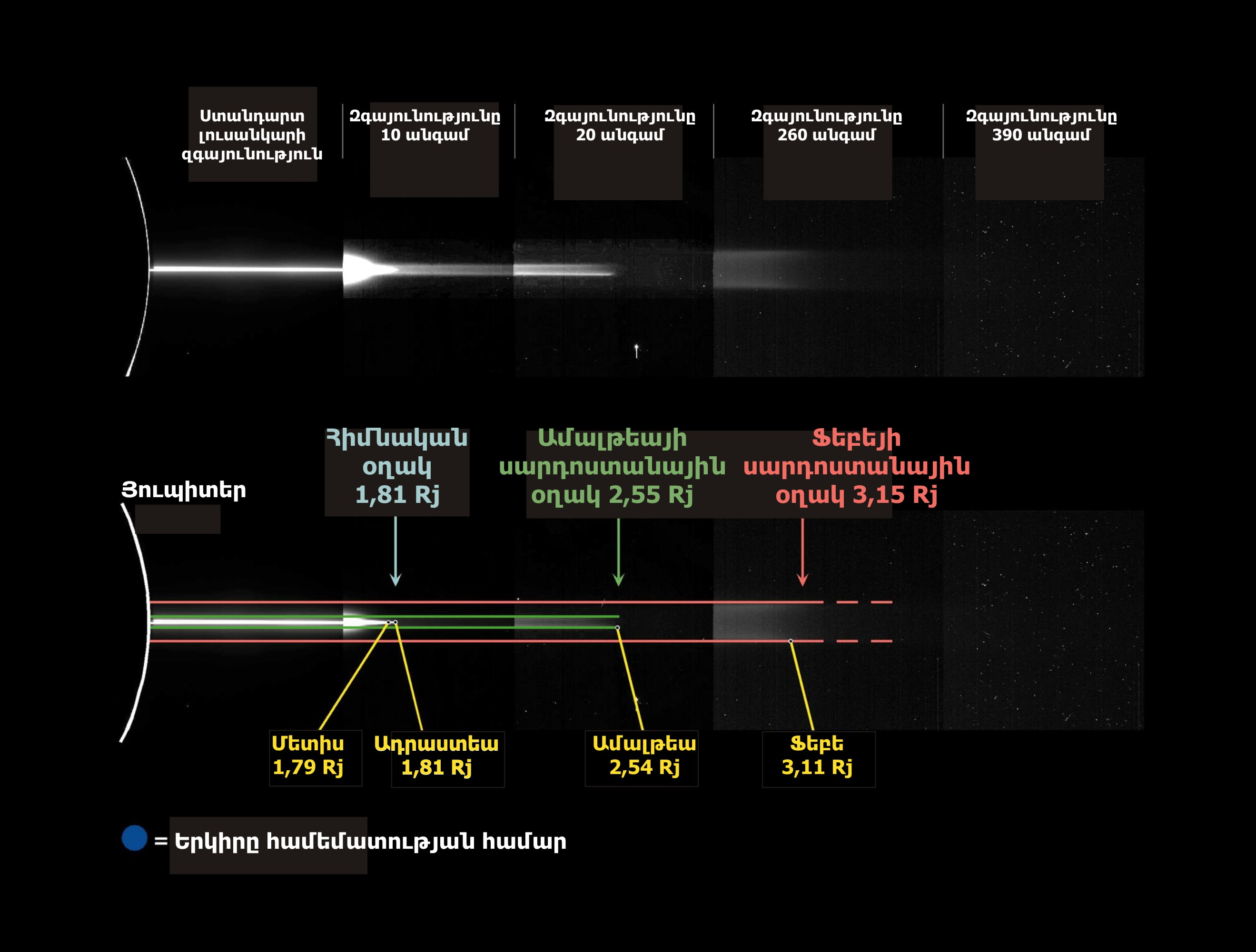 Armenian translation of this file Jovian Ring System PIA01623.jpg